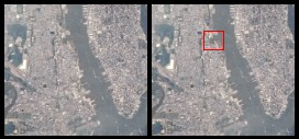 Image of Weehawken Cover/North Hoboken Harbor taken by NASA. (Copied image of it on the right shows where it is.)